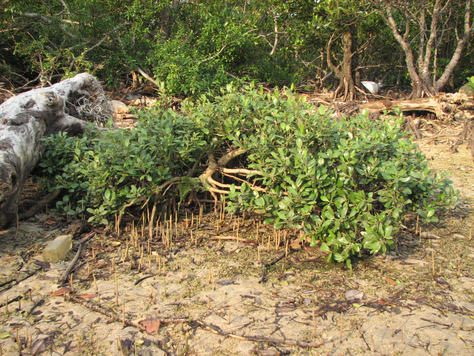 西表島船浦湾のヒルギダマシ(Avicennia marina at Iriomote Island, Okinawa, Japan)